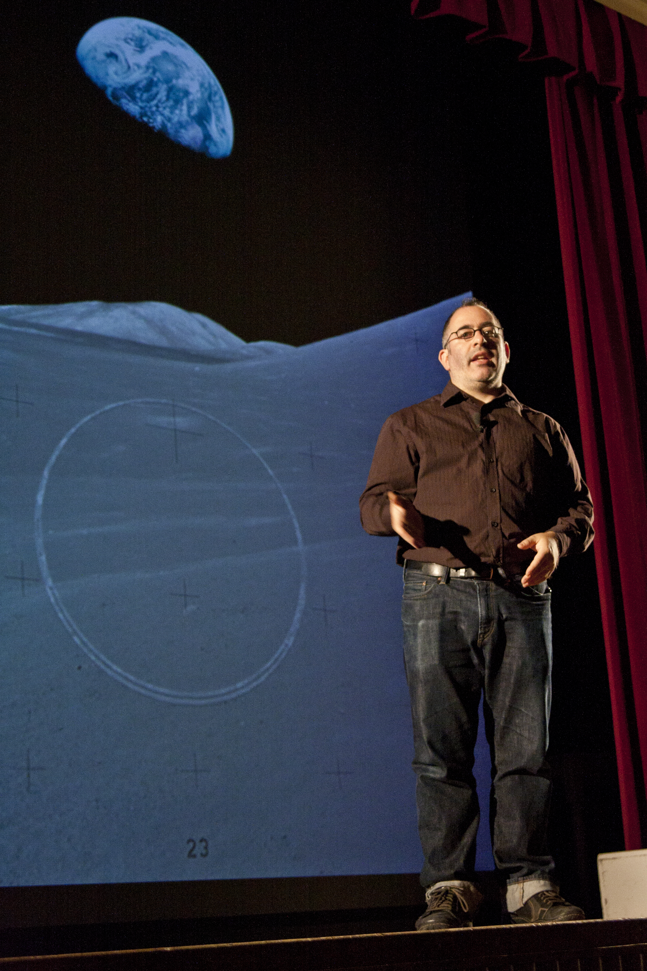 Golan Levin lecture/workshop visit to RMCAD (Rocky Mountain College of Art and Design), October 2010.